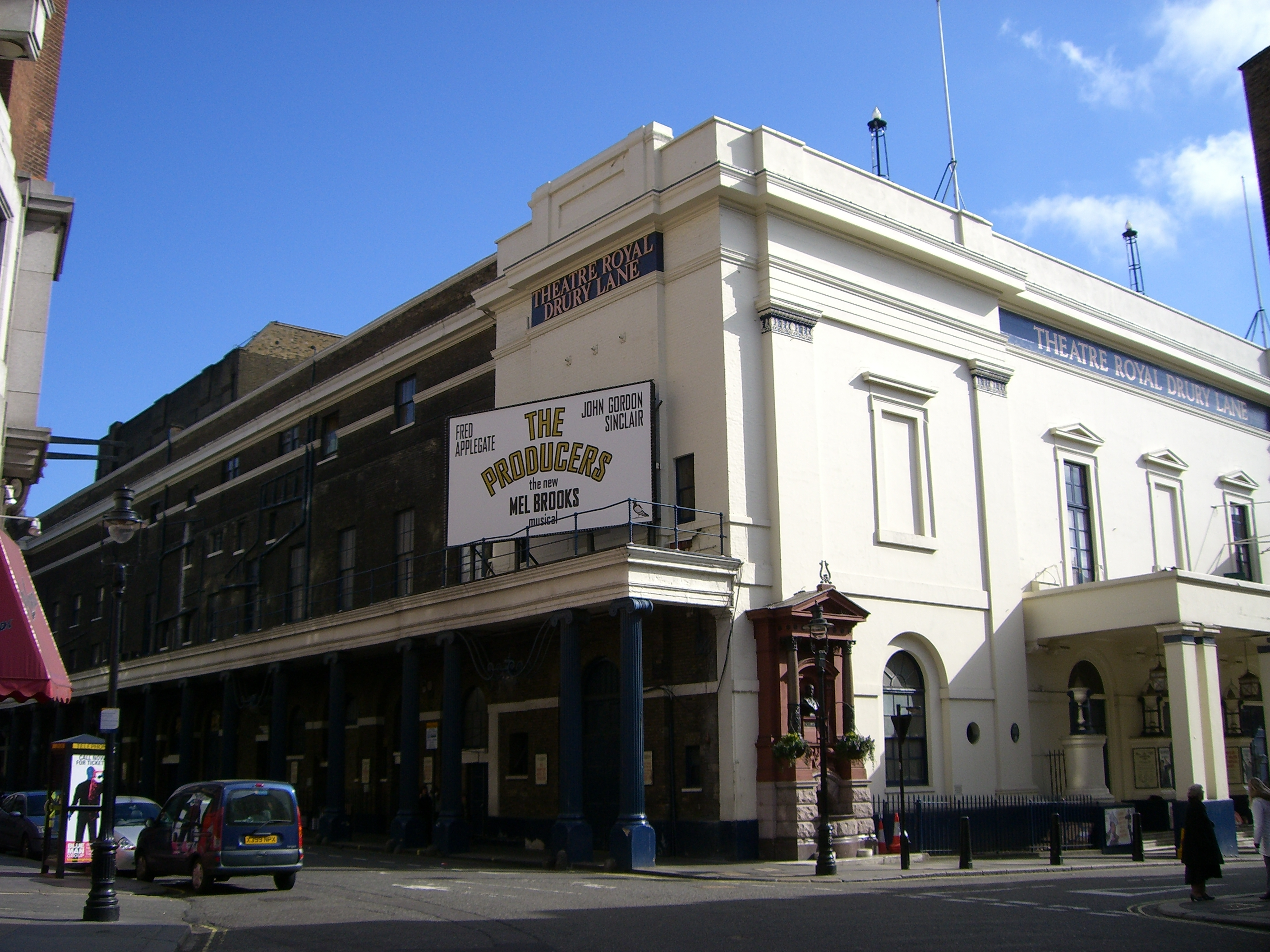 Theatre Royal, Drury Lane, Catherine Street, London WC2B 5JF Photo taken by User:Edward on 19 March 2006 with a Casio EX-S600.